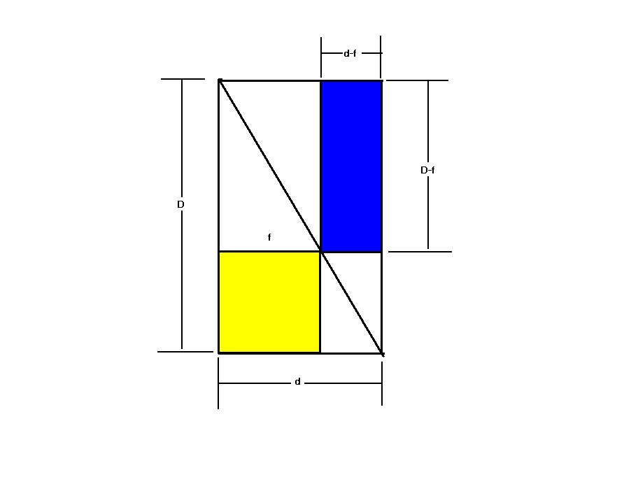 Newton's lens formula 牛顿透镜成像公式